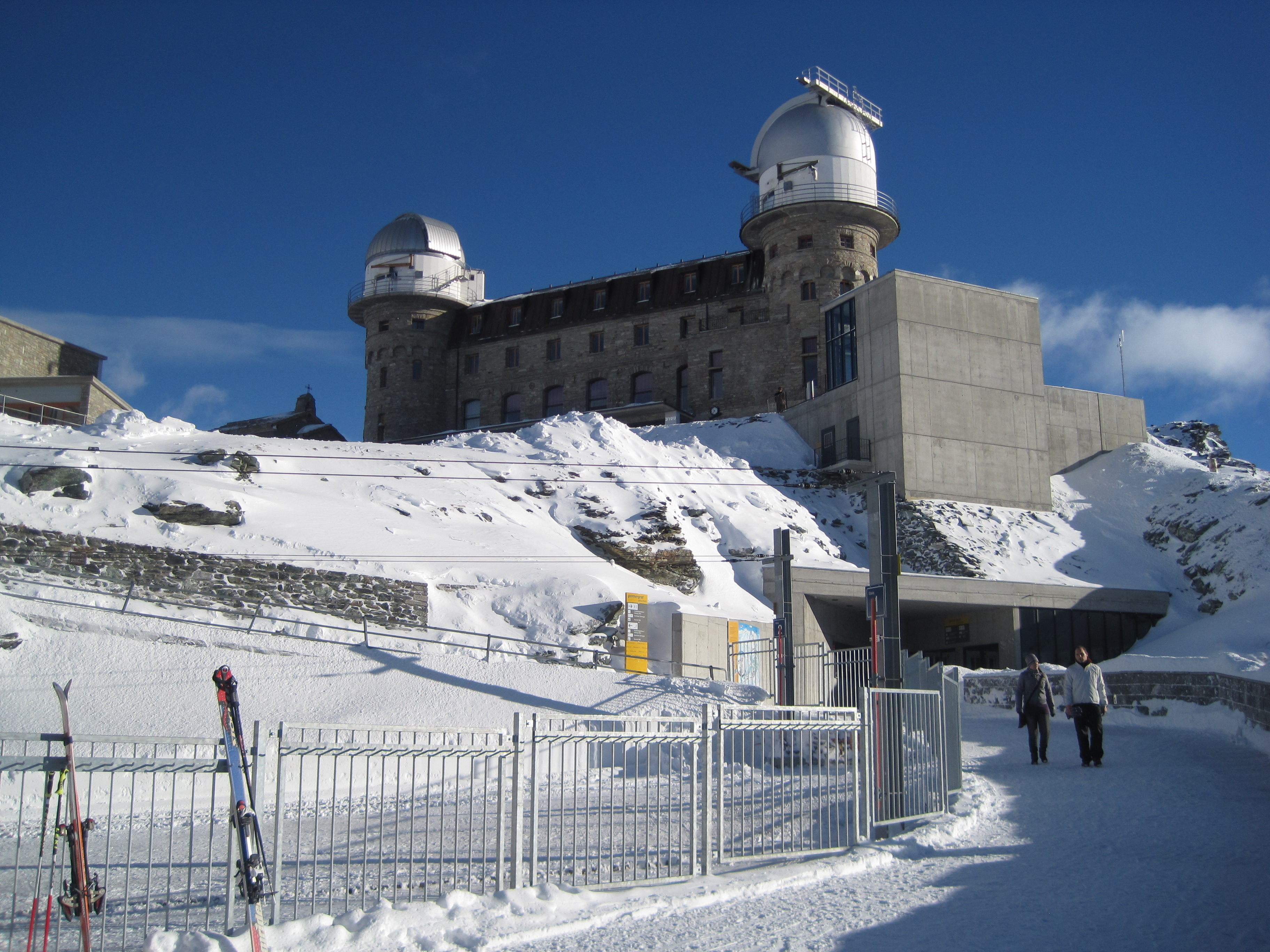 The Kulmhotel Gornergrat, atop Gorgergrat, which is both mountain and ski slope, is also home to two observatories. The Kölner Observatorium für SubMillimeter Astronomie (KOSMA) is a 3-m radio telescope located at 3,135 m on Gornergrat near Zermatt (Switzerland) in the southern tower (nearest to the camera).